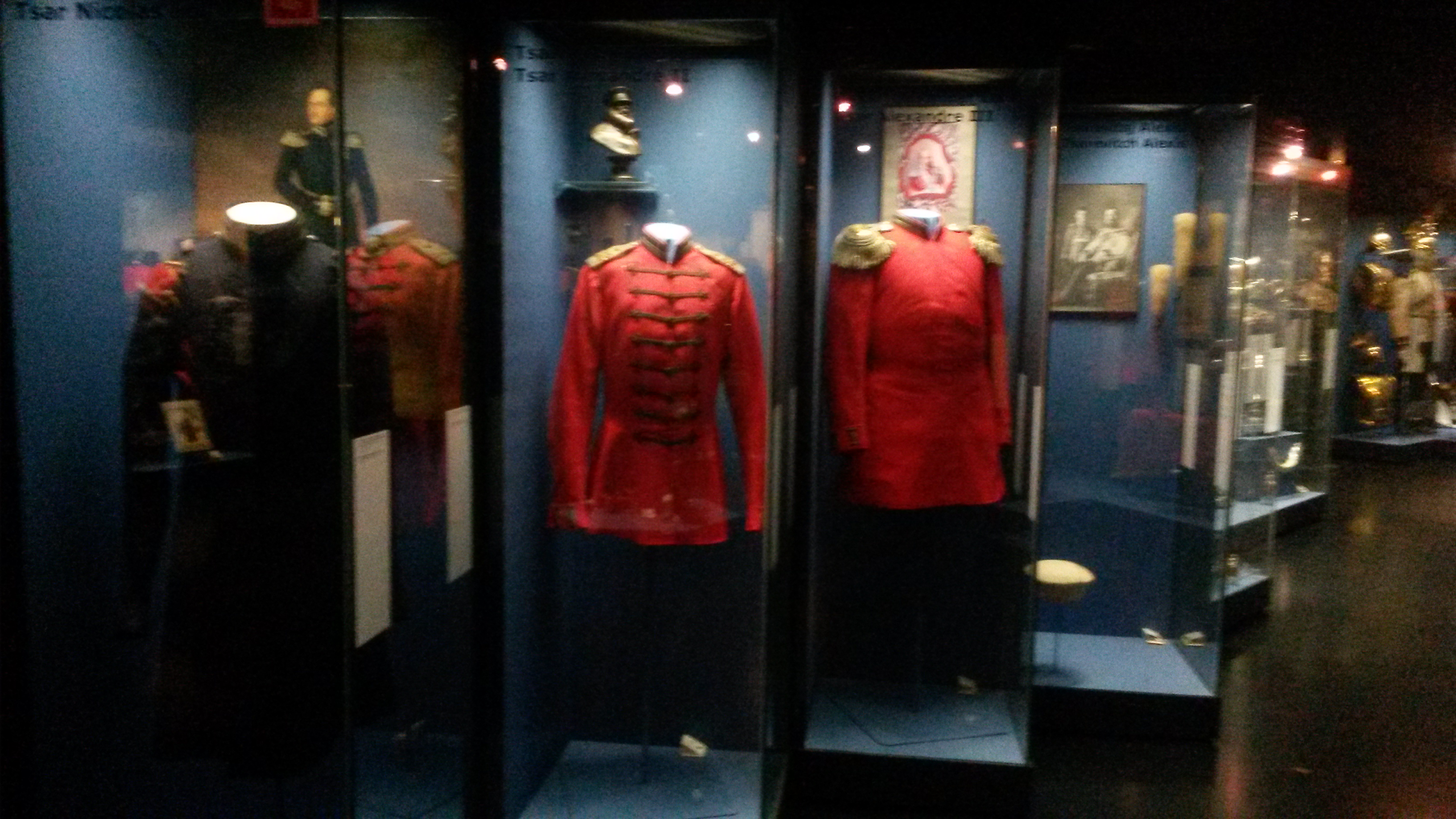 Military uniform of Russian Emperors Nikolai I, Alexander II, Alexander III in Royal Museum of the Armed Forces and Military History